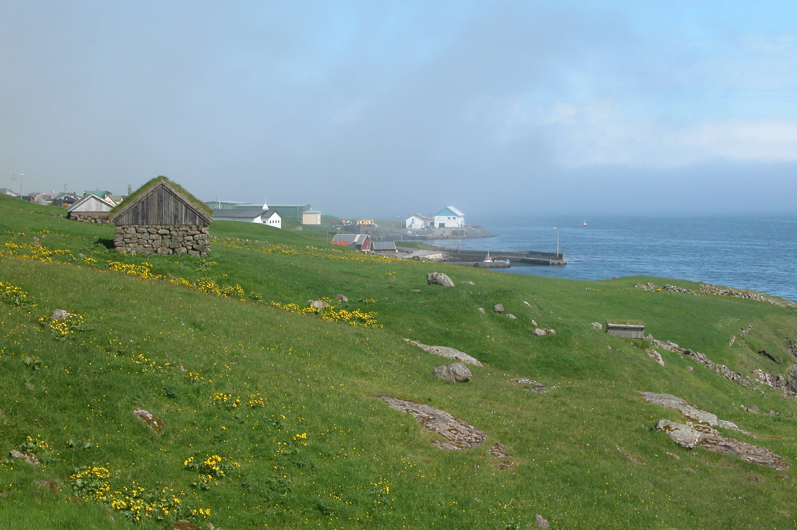 Kaldbak on Streymoy, Faroe Islands